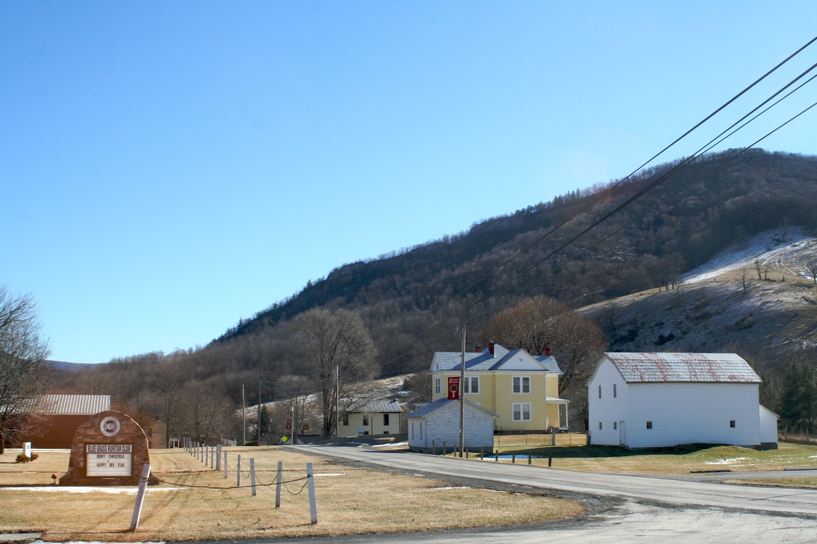 Downtown Blue Grass.